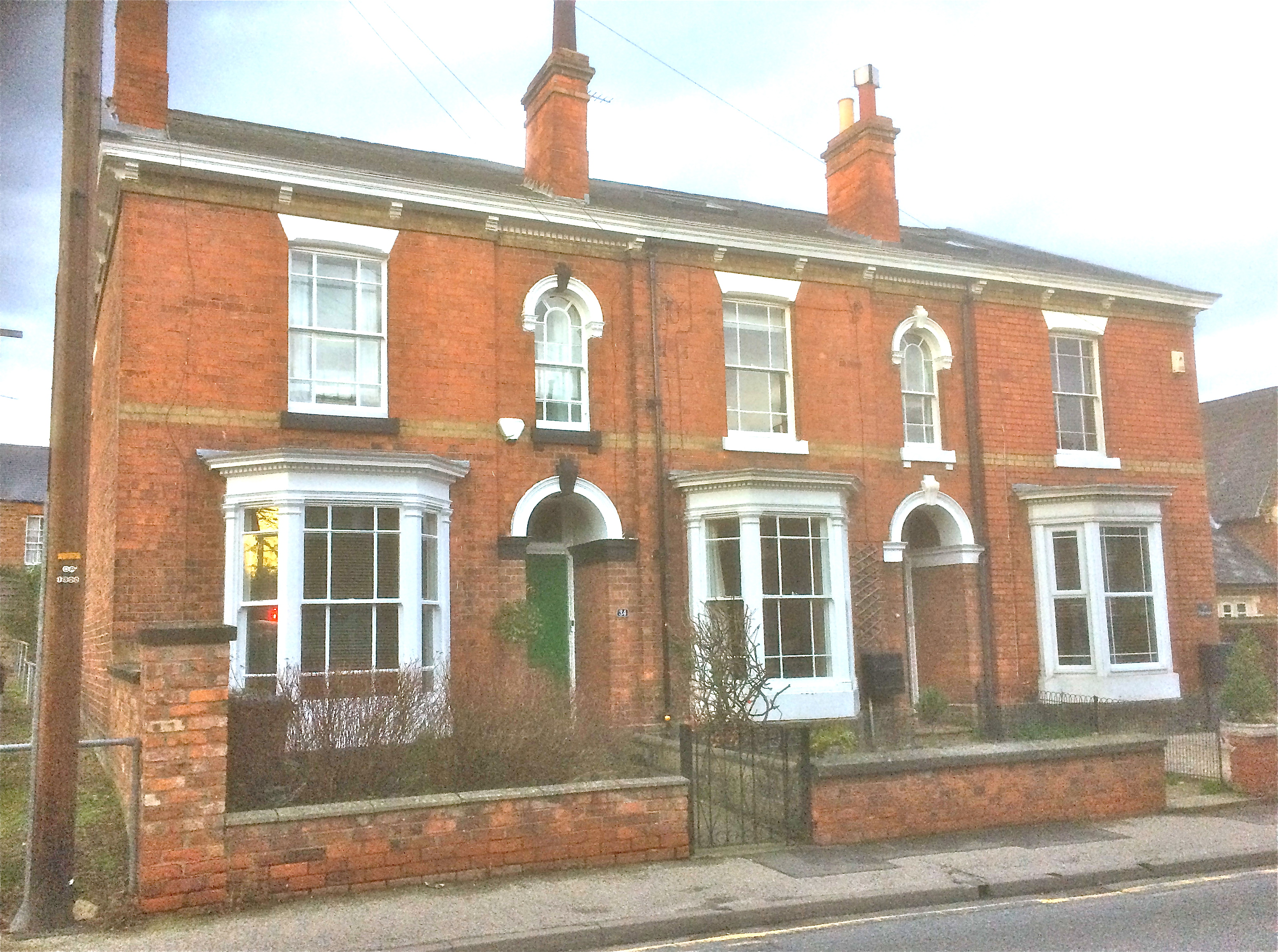 34-38 Greetwellgate, Lincoln. 1870